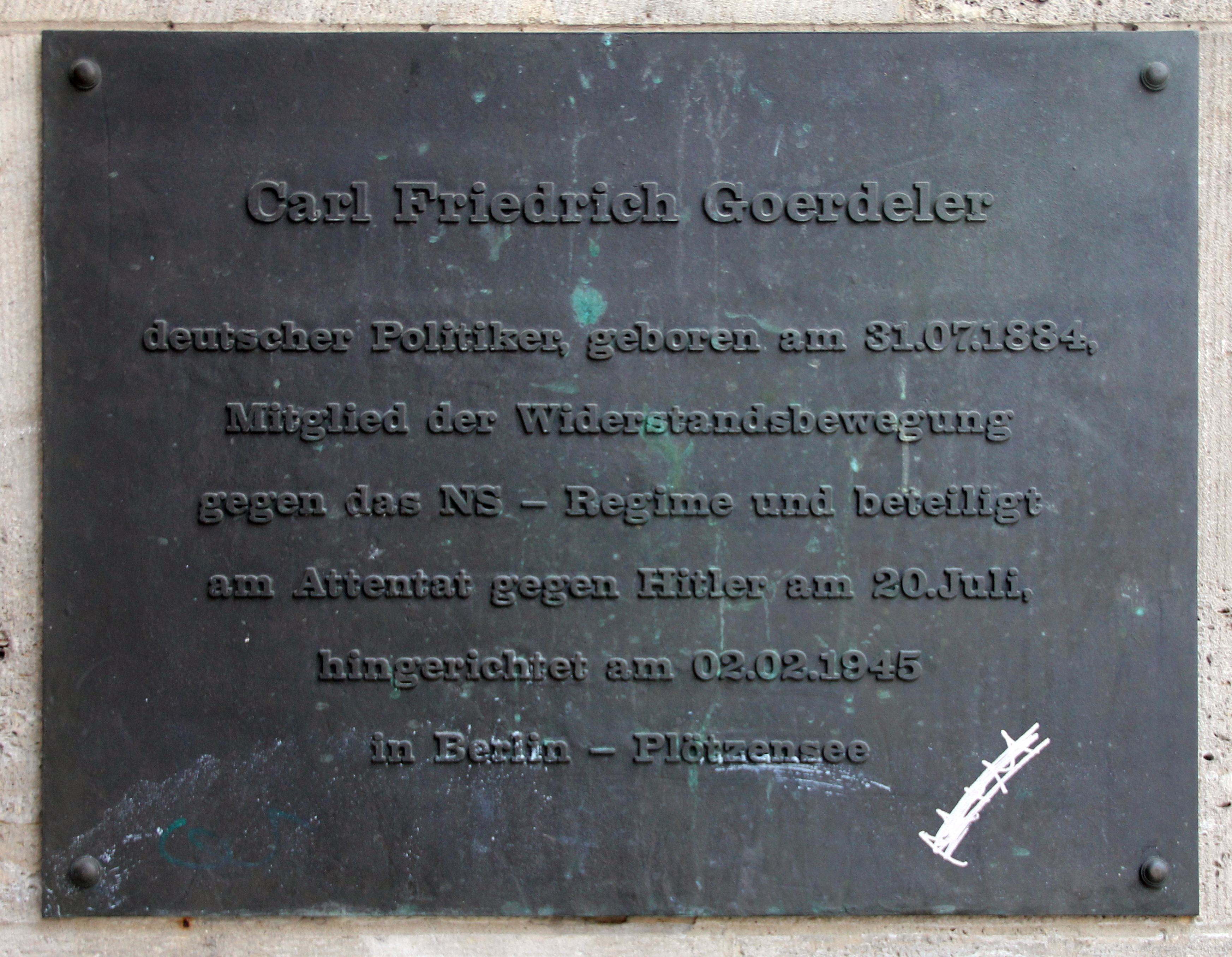 Memorial plaque, Carl Friedrich Goerdeler, Sybelstraße 2-3, Berlin-Charlottenburg, Germany